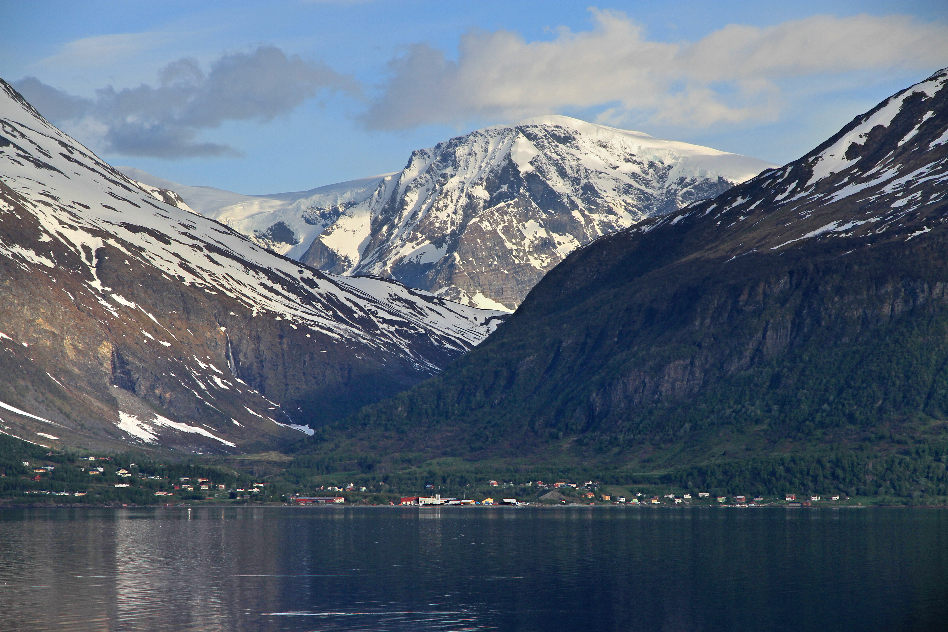 Jiehkkevárri (1,833 m) and Lyngsdalen as seen from the east at the opposite coast of Storfjorden in a morning in 2011 June.